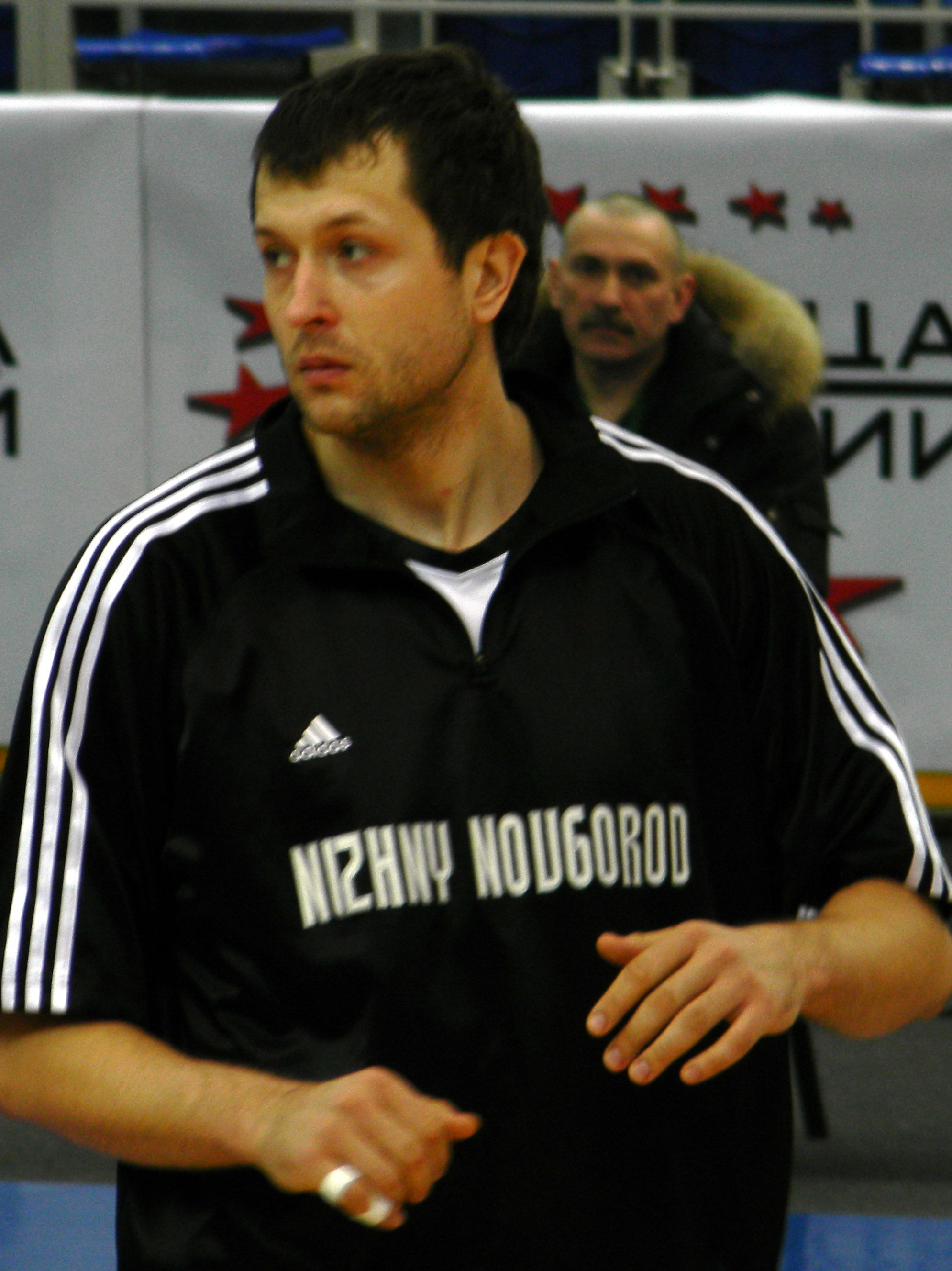 Oleg Baranov, russian basketball player from BC Nizhny Novgorod in the game against BC Enisey Krasnoyarsk on March 26th, 2011